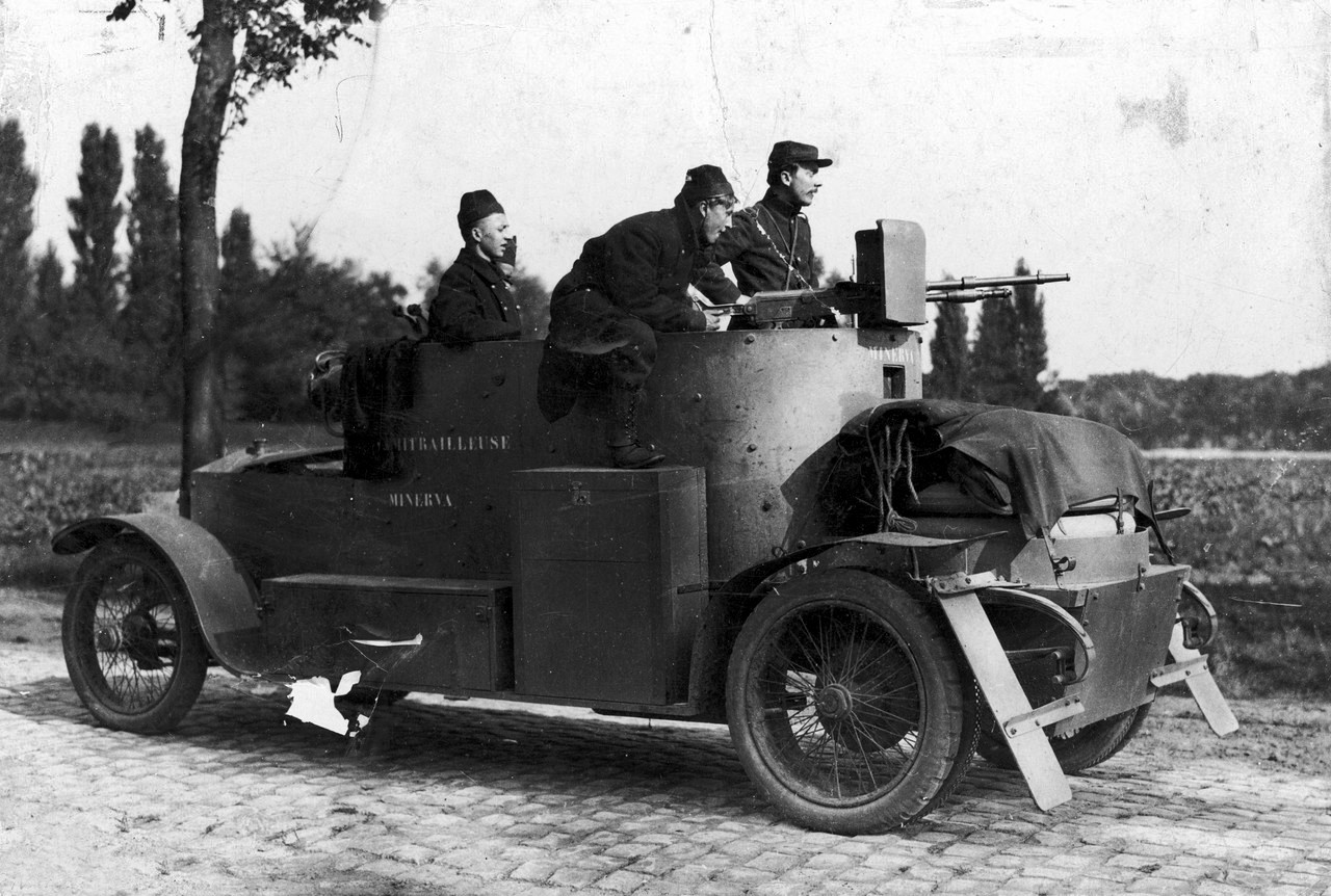 A Belgian Minerva armoured car and crew November 1914 1914 Model